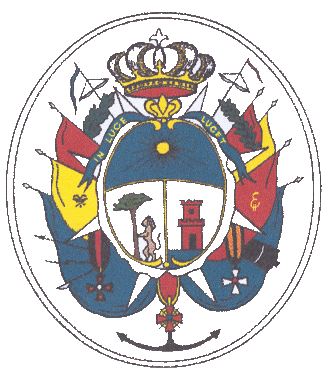 Coat of arms of Sir José de Ribas.